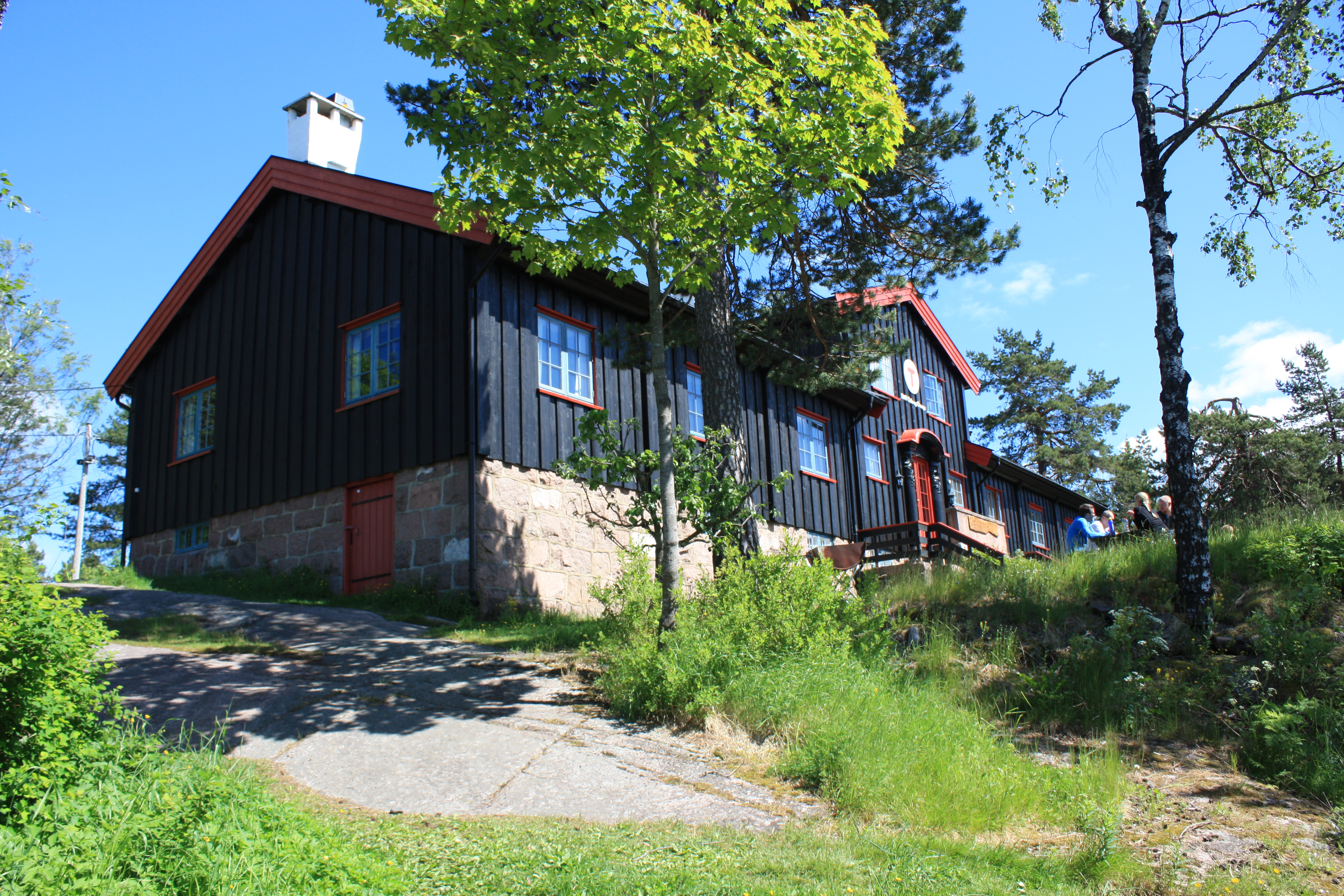 Kobberhaughytta